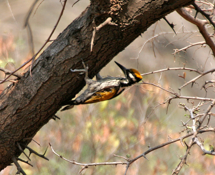 White-naped Woodpecker Chrysocolaptes festivus in Mahavir Harina Vanasthali National Park, Hyderabad, India.